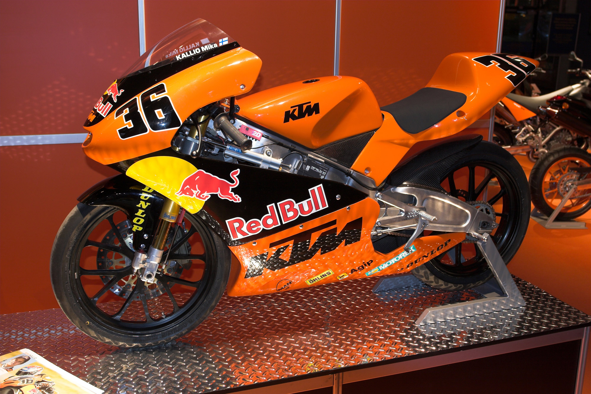 Finnish Grand Prix motorcycle racer Mika Kallio's KTM 125 -motorcycle at the MP2006-fair in Helsinki. Photo by Thermos.